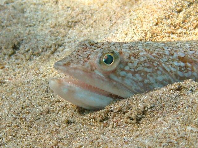 Synodus saurus photographed in Karpathos, Greece.